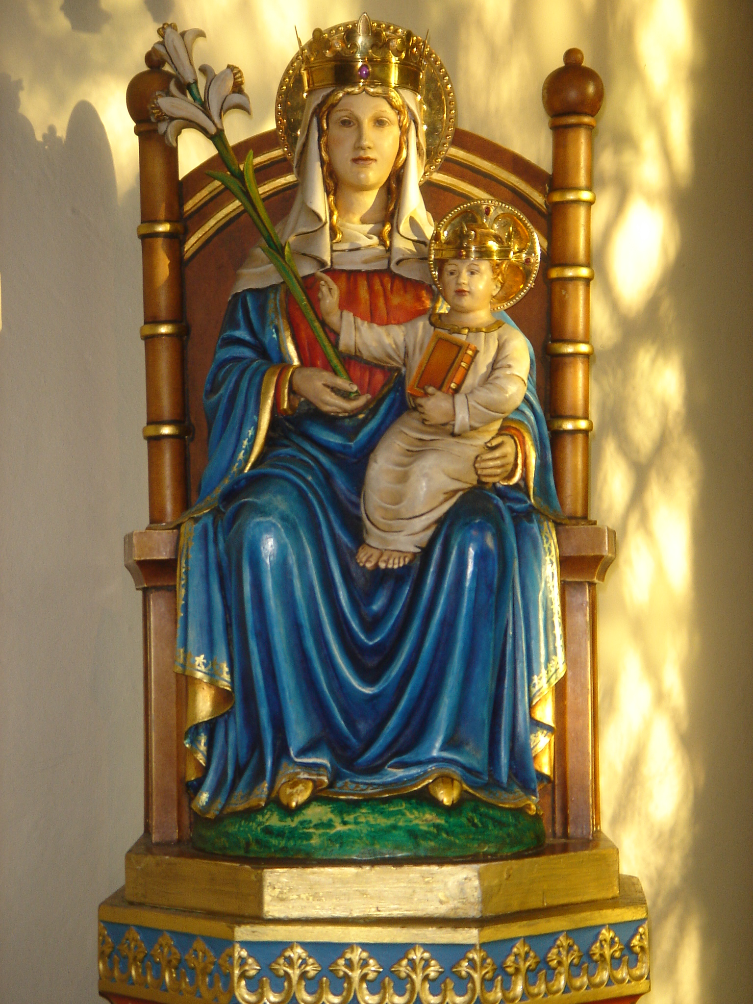 The statue of Our Lady of Walsingham, the Slipper Chapel, Walsingham, Norfolk, England.